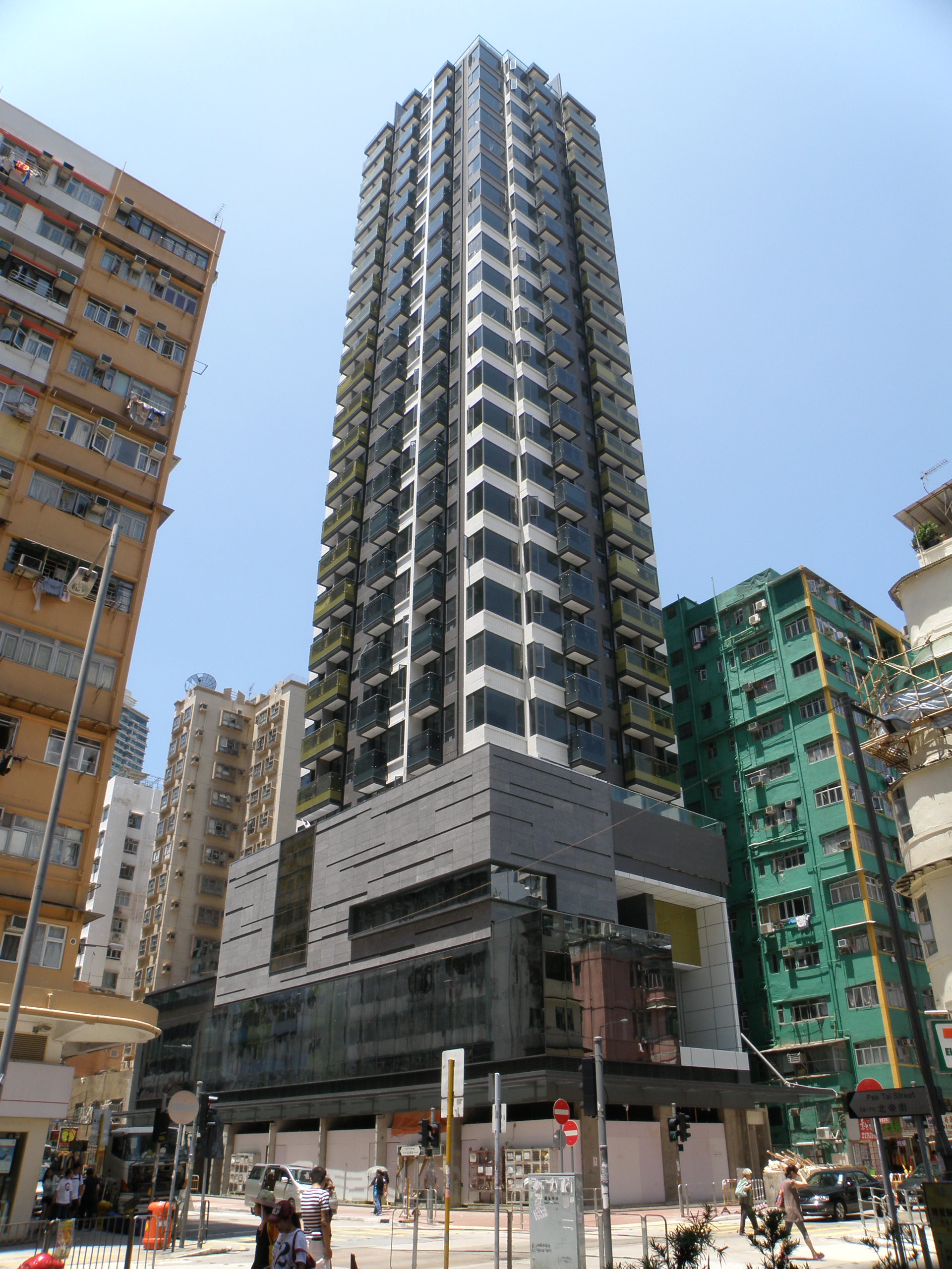 My Place in To Kwa Wan, Hong Kong.